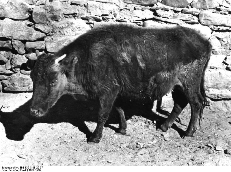 Kangmar, Halbblutyak Information added by Wikimedia users.